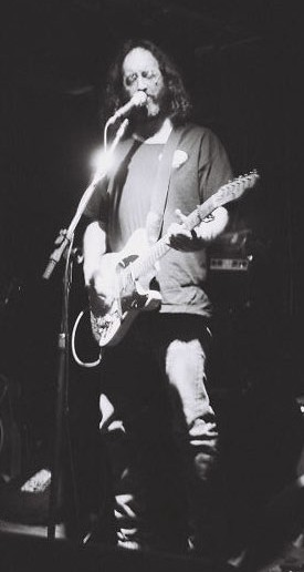 Photo shot by image uploader Ed Pischedda of North American singer/songwriter James McMurtry during a public performance by him and his band (known then as "The Heartless Bastards") in 2005 at Dan's Silverleaf in Denton, Texas.